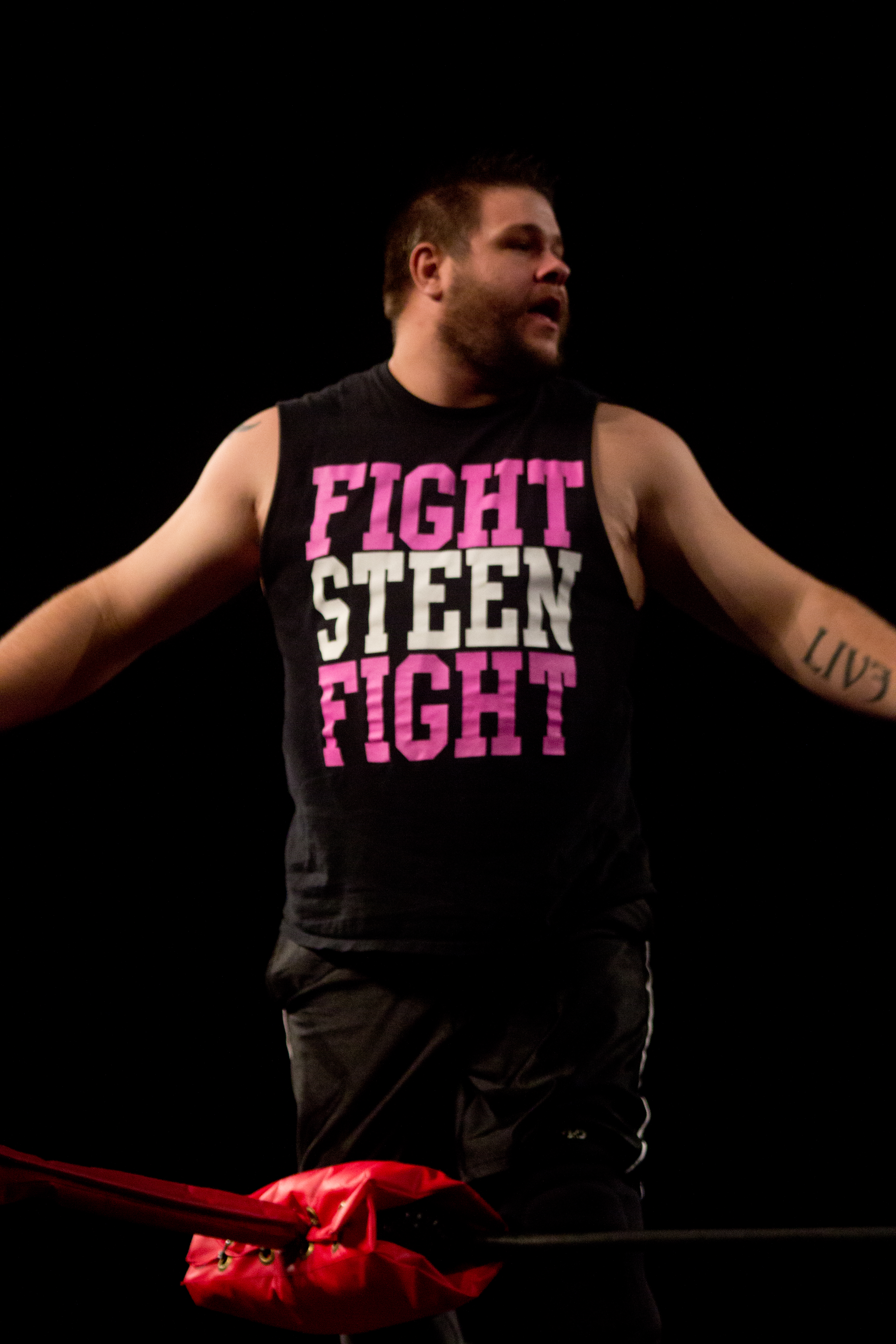 Kevin Steen at house show in 2013.